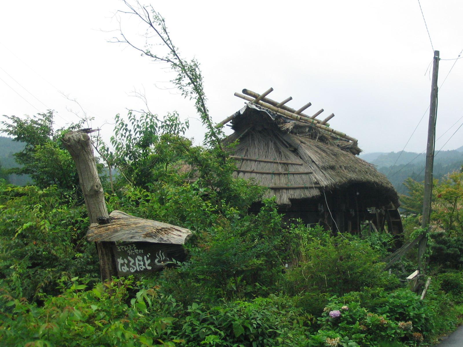 "Naruhodo", a silly name for a hot spring, in Kokonoe, Oita. (But not one of their promoted nine.)